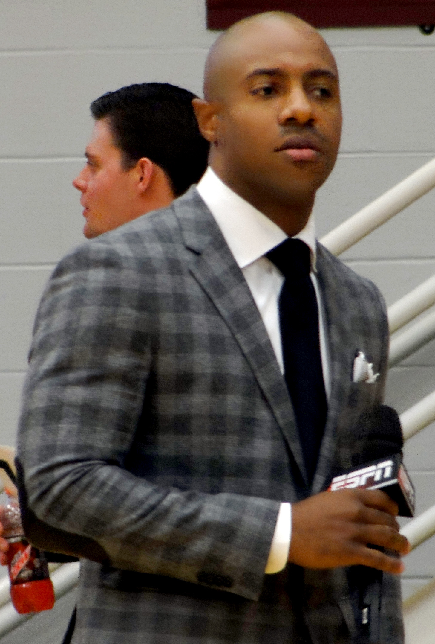 Jay Williams, former basketball player and ESPN personality.